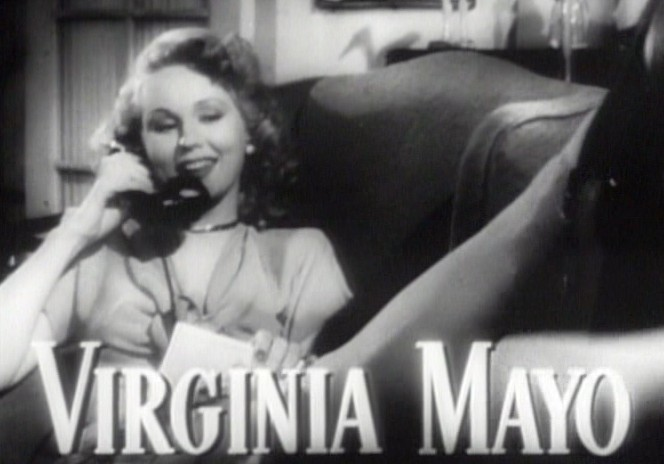 Cropped screenshot of Virginia Mayo from the trailer for the film The Best Years of Our Lives.